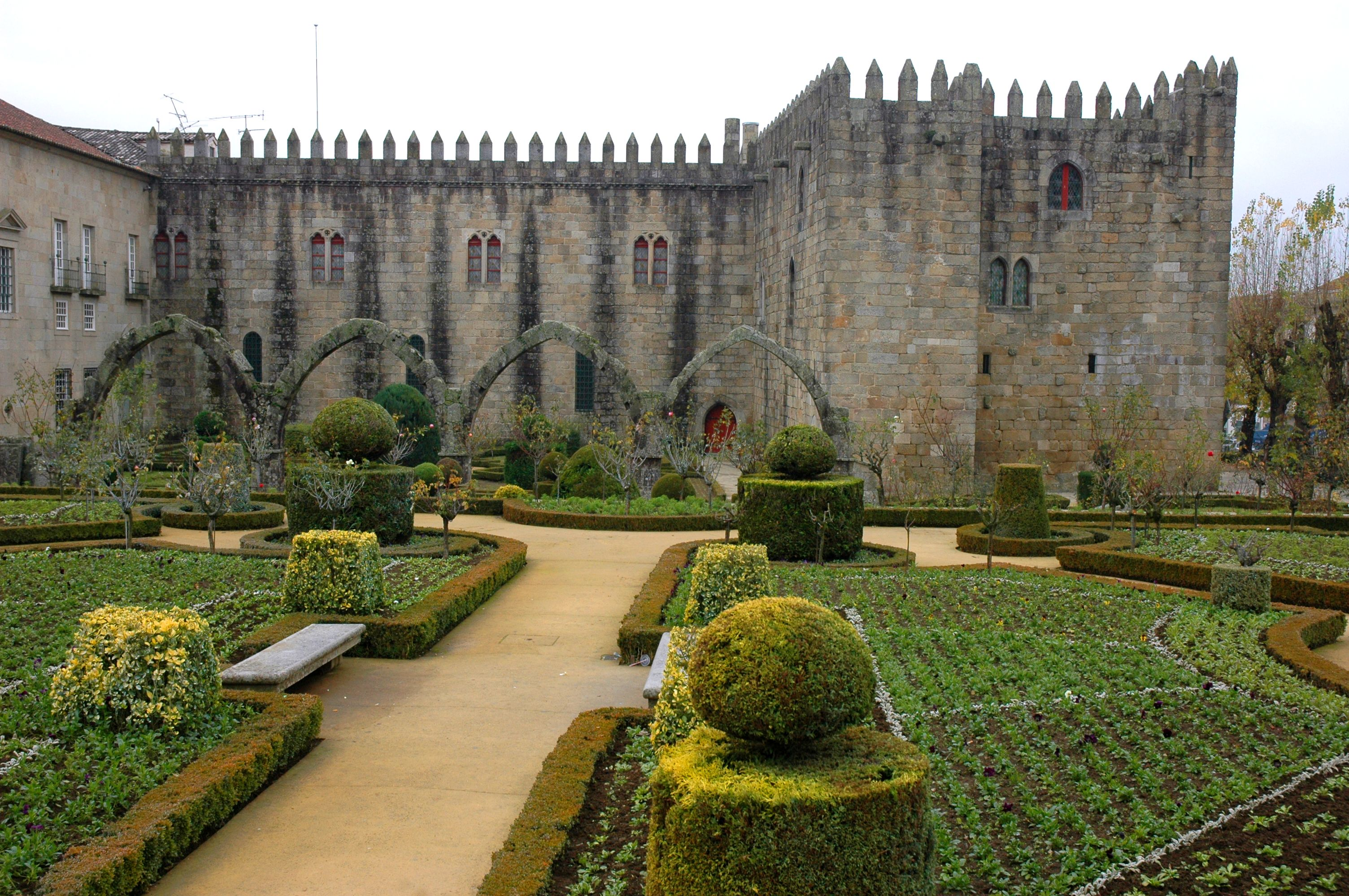 Archiepiscopal Courtyard garden, in the Santa Barbara Gardens, Braga, Portugal.